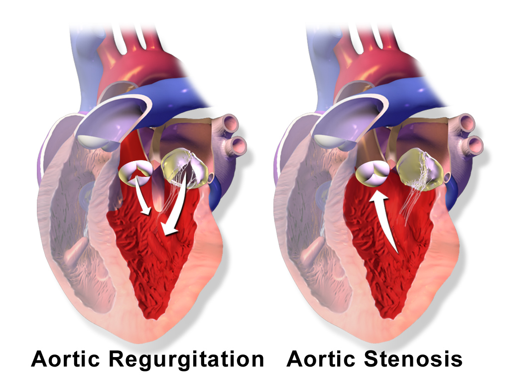 Aortic Valve Regurgitation vs. Aortic Valve Stenosis. See a related animation of this medical topic.